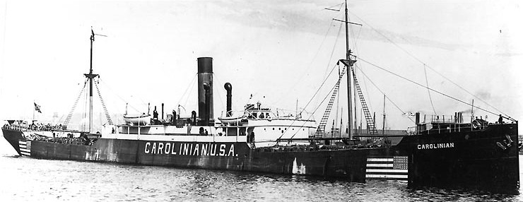 Cargo ship SS Carolinian, which served in the US Navy as USS Carolinian (ID-1445) in 1918-1919